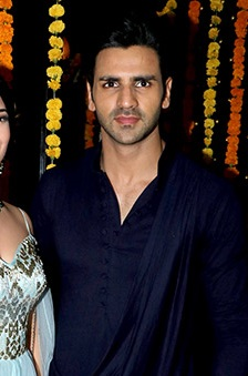 Vivek at Ekta Kapoor's Diwali party